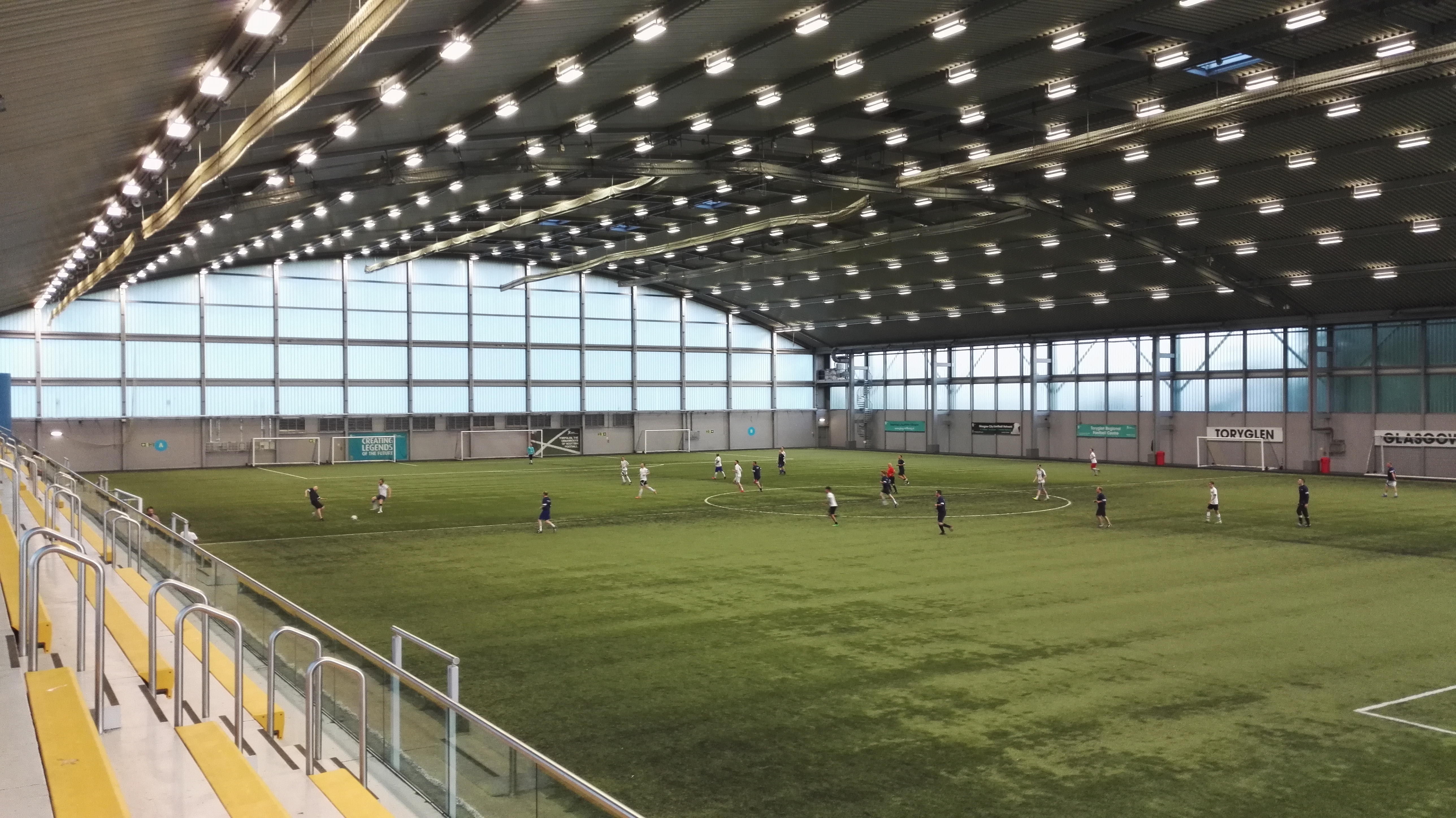 Interior of Toryglen Regional Football Centre, Glasgow, Scotland during an amateur match